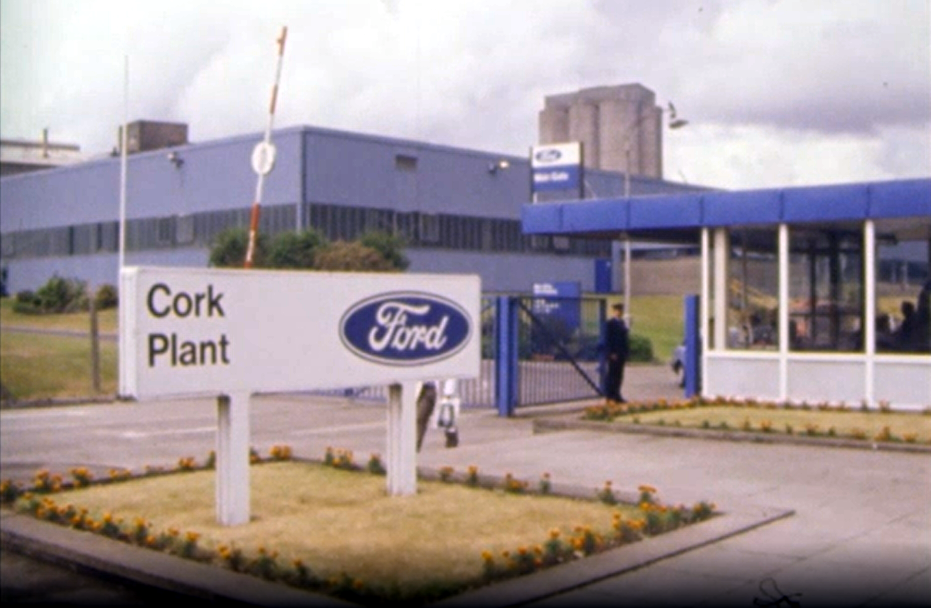 The Main Gate to the Cork plant on the last day of work.